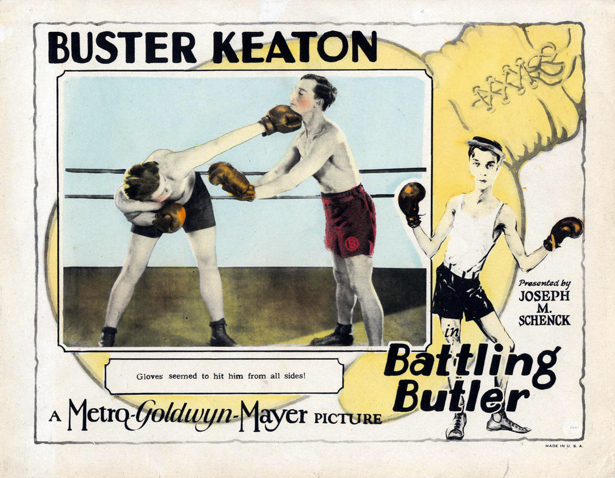 Lobby card for the American comedy film Battling Butler (1926).